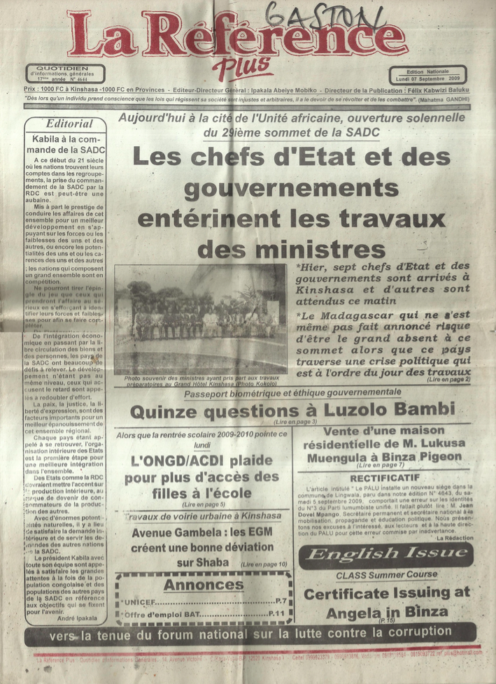 Front page of La Référence Plus newspaper, Democratic Republic of the Congo